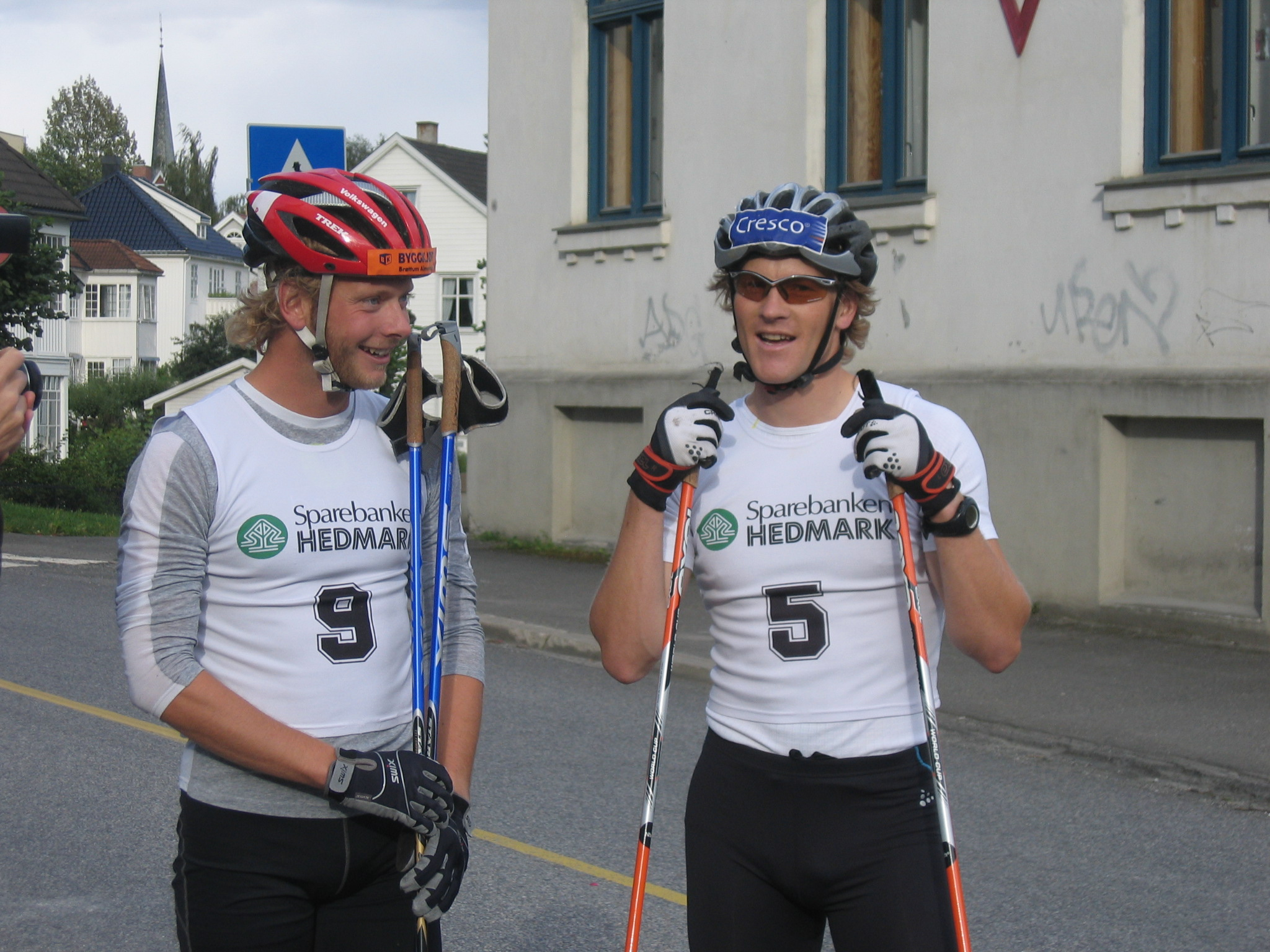 The Norwegian cross-country skiers John Anders Gaustad & Jens Arne Svartedal under Kirkebakken Grand Prix 2007 in Hamar, Norway.